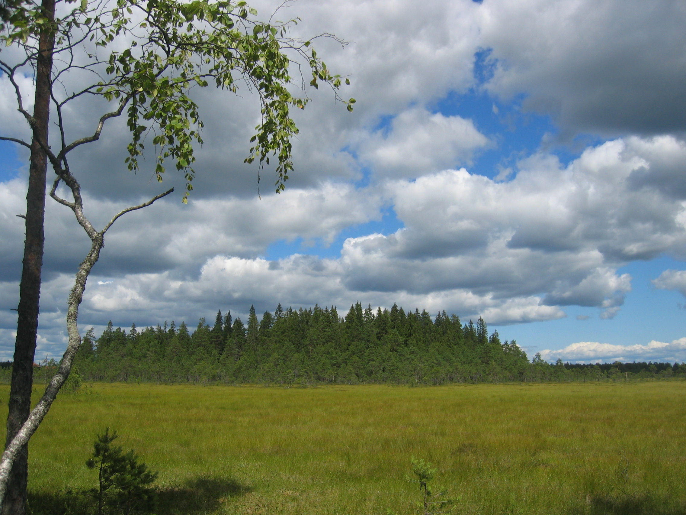 Open bog in Lakjärvenrahka, Kurjenrahka National Park, Finland. View from Mullanmaa towards Mäntysaari. Habitat of a local Straw belle (Aspitates gilvaria) population.